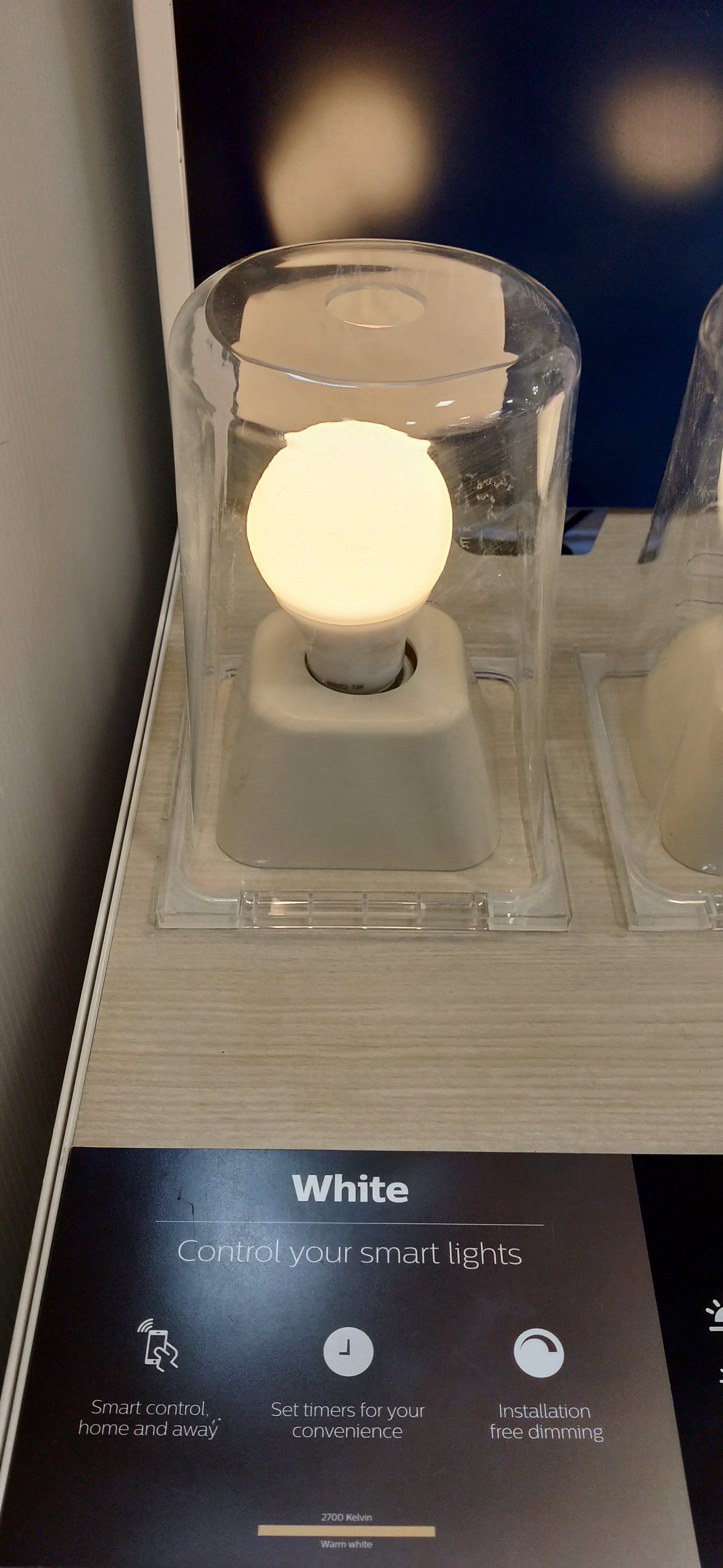 Hue White